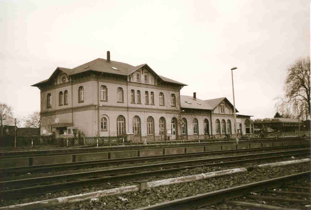 Train station of Dorsten, Germany